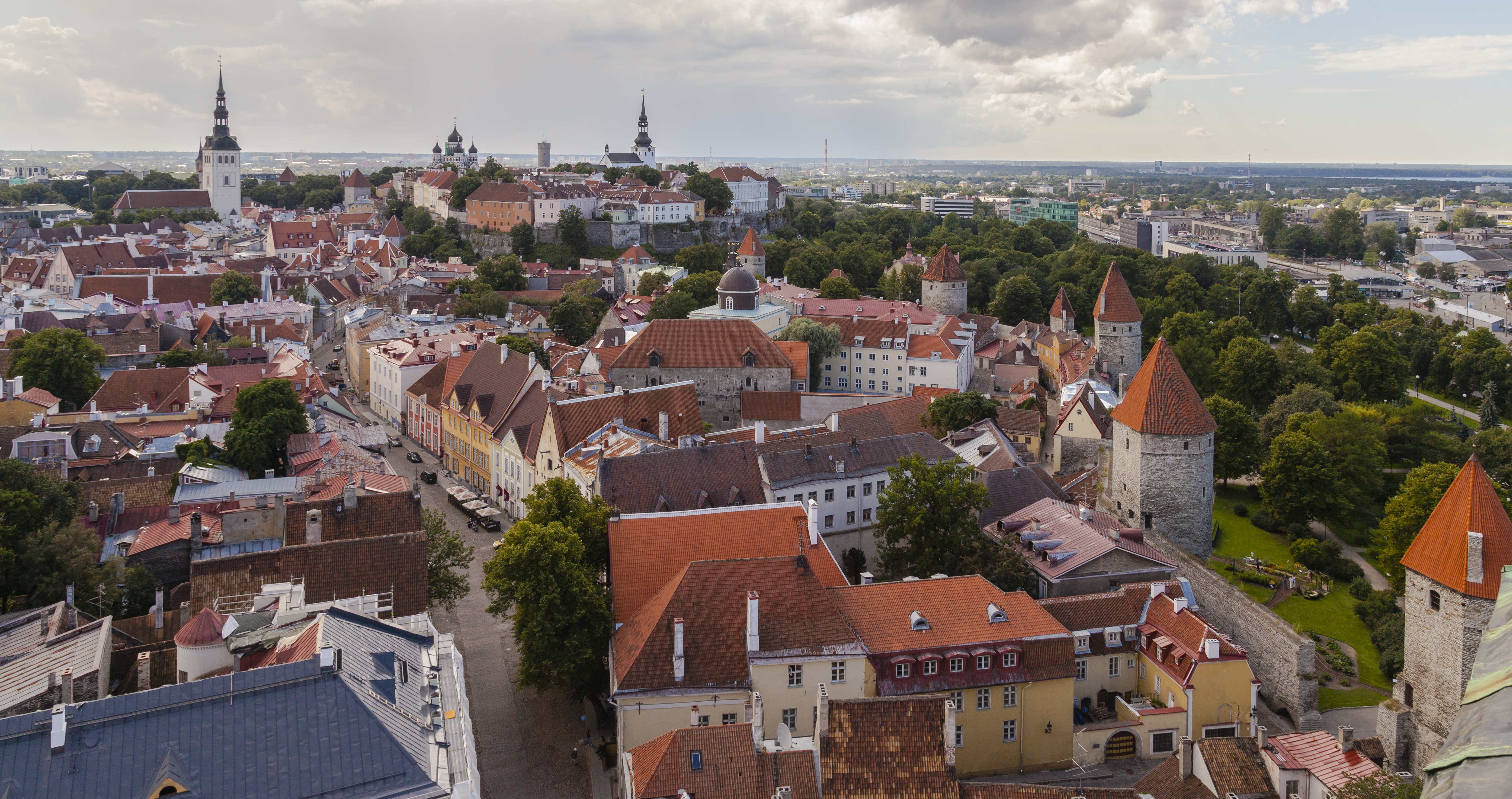 View of Tallinn from St. Olaf's church, Estonia